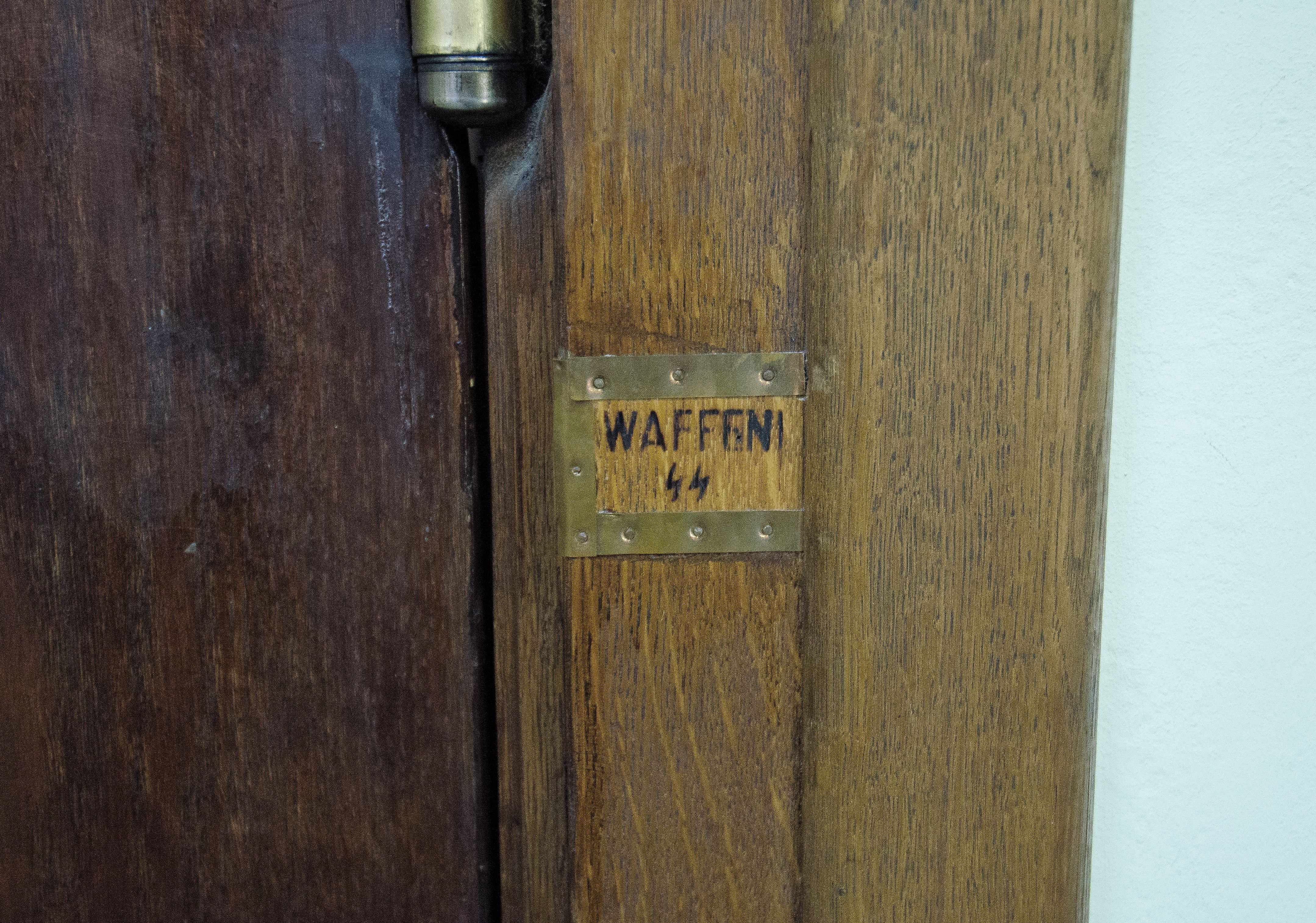 Preserved Waffen SS sign burned on the door frame during WWII in the building of the Polish Army Museum in Warsaw